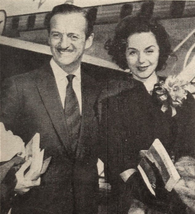 David Niven with his wife Hjördis Genberg/HjördisTersmeden, 1959